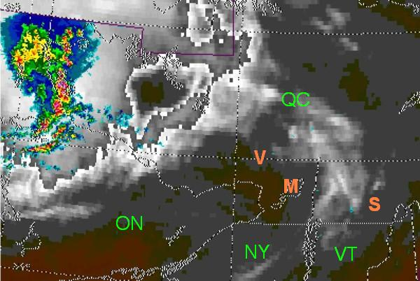 The derecho-producing bow echo system, racing east southeastward at a speed of nearly 100 kph (62 mph), entered the Temiscamingue region of Quebec (QC) by late Sunday evening on July 4th (Fig 4). A gust of 100 kph (62 mph) was measured at Temiscaming, and a gust of 105 kph (65 mph) was measured at Angliers, with electrical power outages occurring in the region. There also was a tremendous amount of cloud-to-ground lightning associated with the bow echo thunderstorms, with up to 6000 strikes per hour